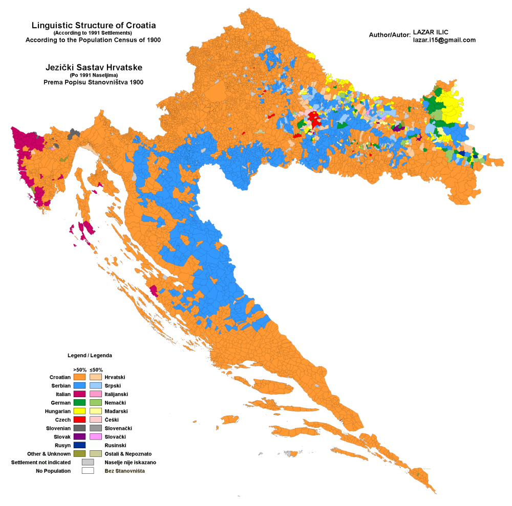 This is a linguistic/ethnic map of Croatia according to data from the 1900 population census.